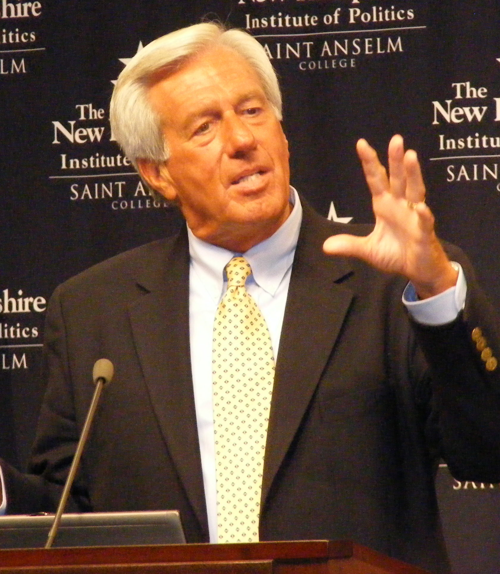 American Solutions CEO Joe Gaylord talks about his new campaign manual, Campaign Solutions, at a training session for New Hampshire candidates and activists.